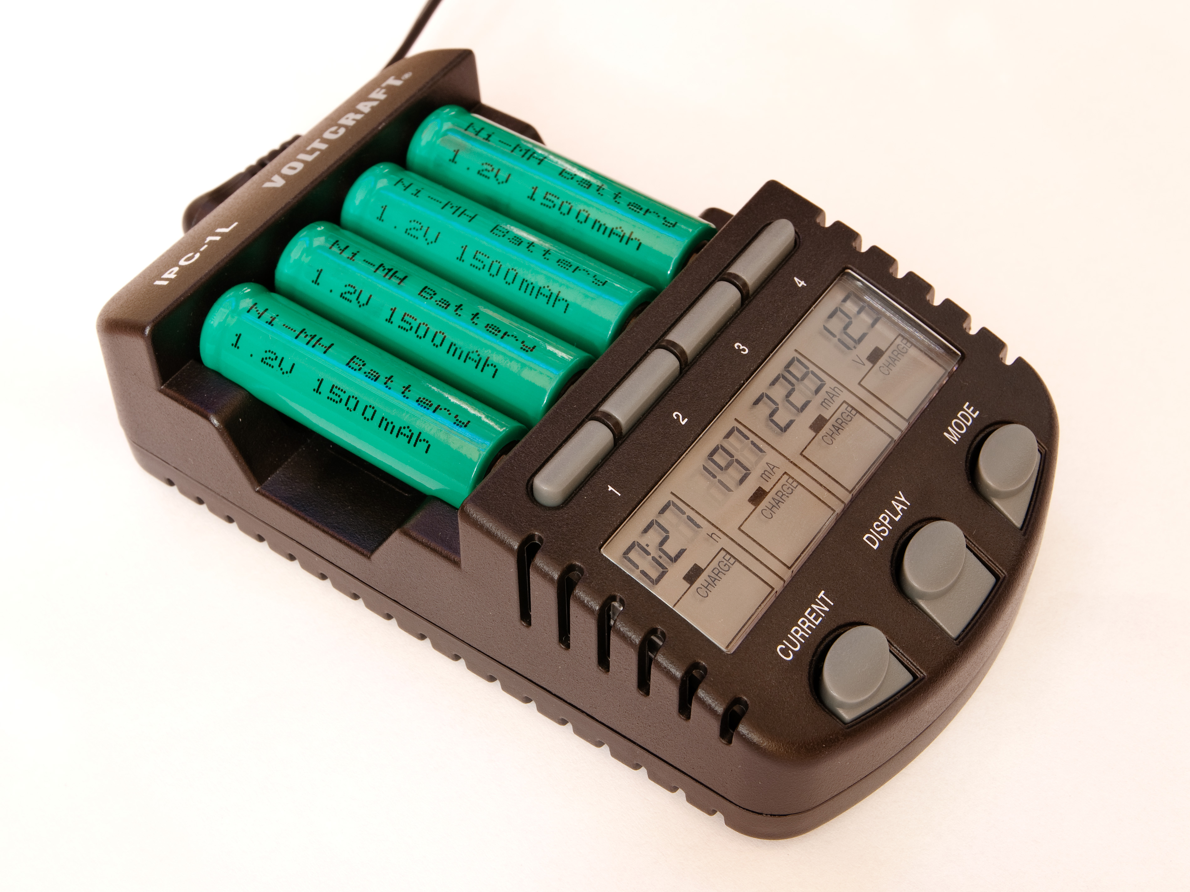 Battery charger for AAA (Micro) and AA (Mignon) rechargeable batteries controlled by a microcontroller